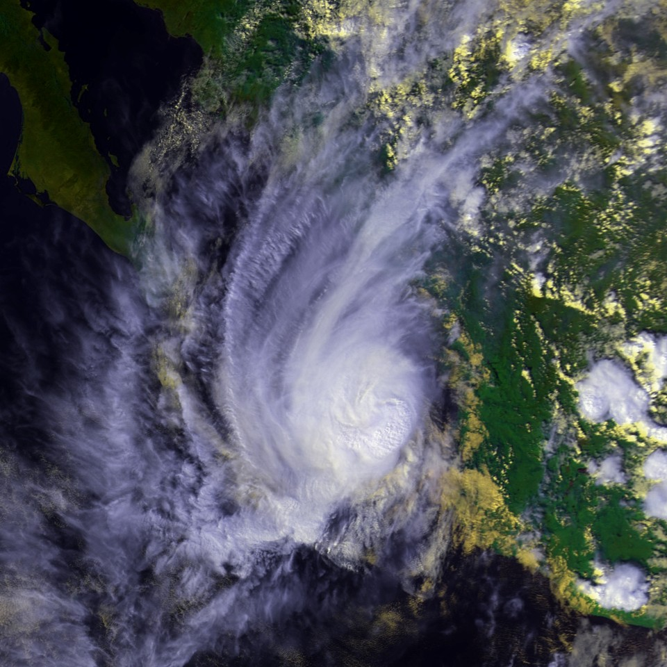 Hurricane Madeline on October 18. Maximum sustained winds were near 85 mph and the minimum central pressure was near 983 mb.